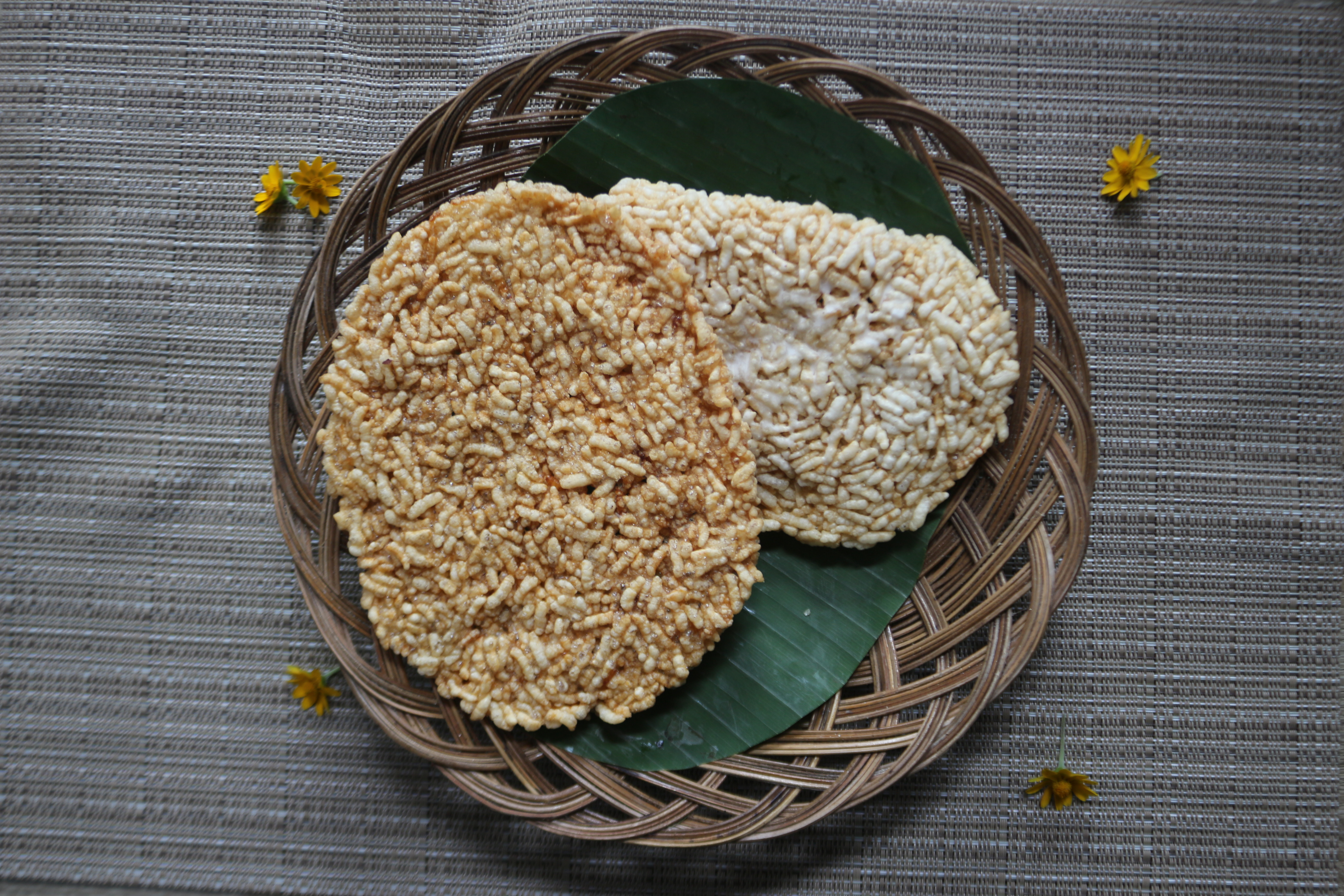 Traditional snack foods from Bali, Indonesia.